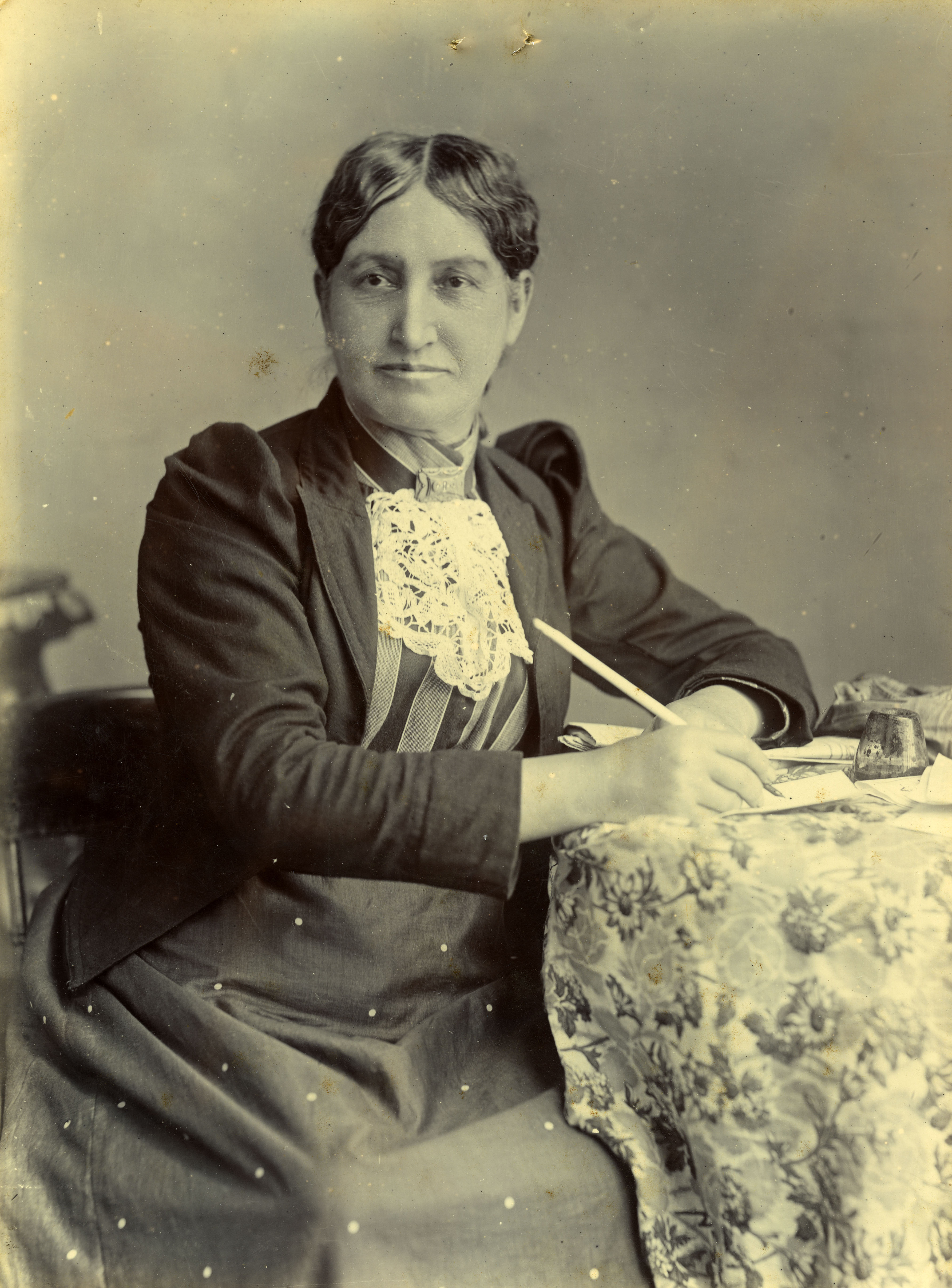 This photograph of Elizabeth comes from the Patent and Copyright series held at Archives New Zealand. Archives reference: AEGA 18982 PC4 1894/14